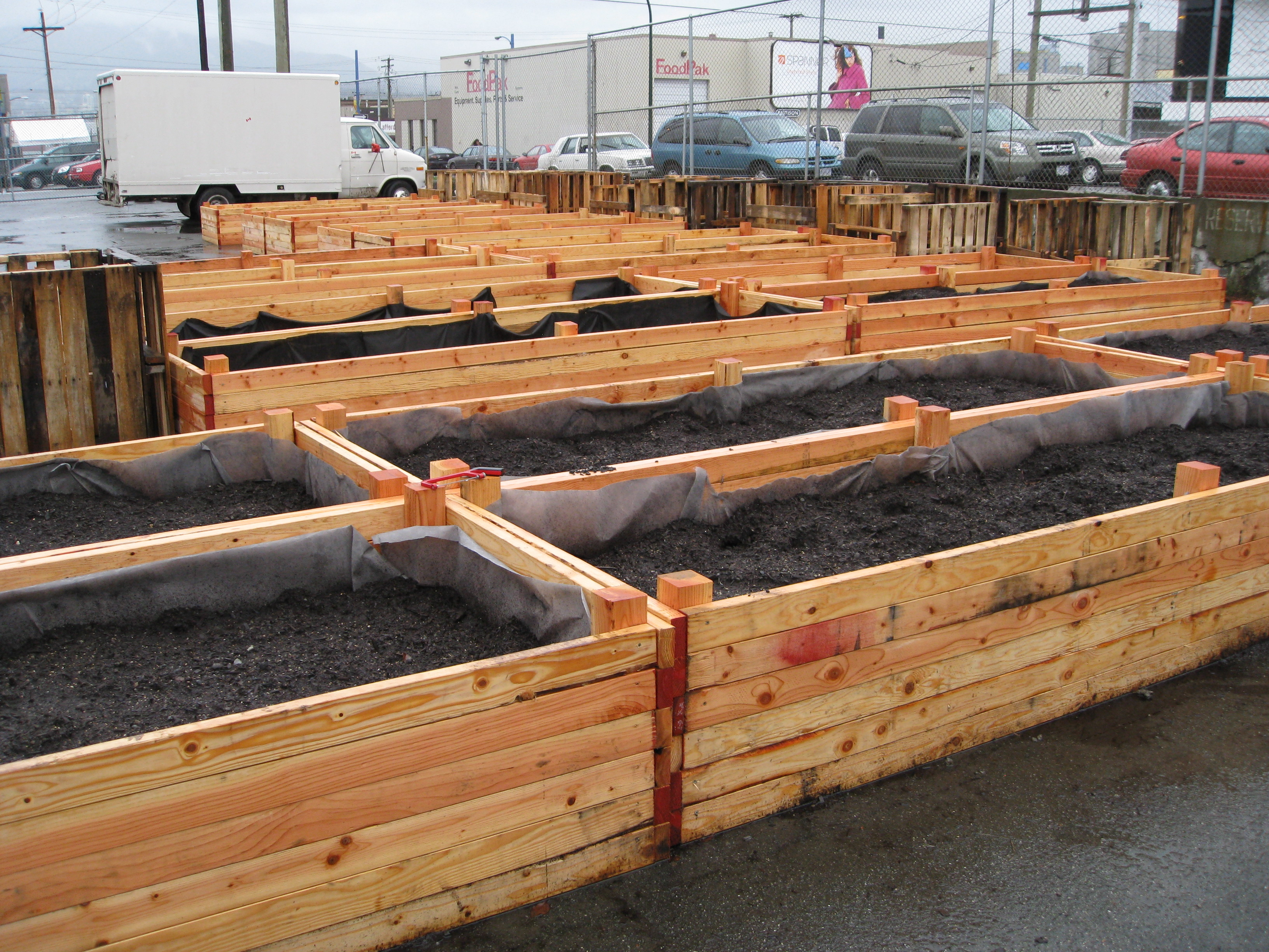 Sole Food Street Farms planter boxes located at Hawks and Hastings Avenue (Strathcona location) in Vancouver, BC, Canada.